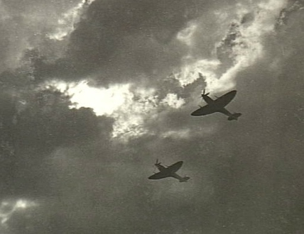 AWM caption : Darwin area, NT. c. 1944. Two Supermarine Spitfire aircraft in flight in the North-West Area.